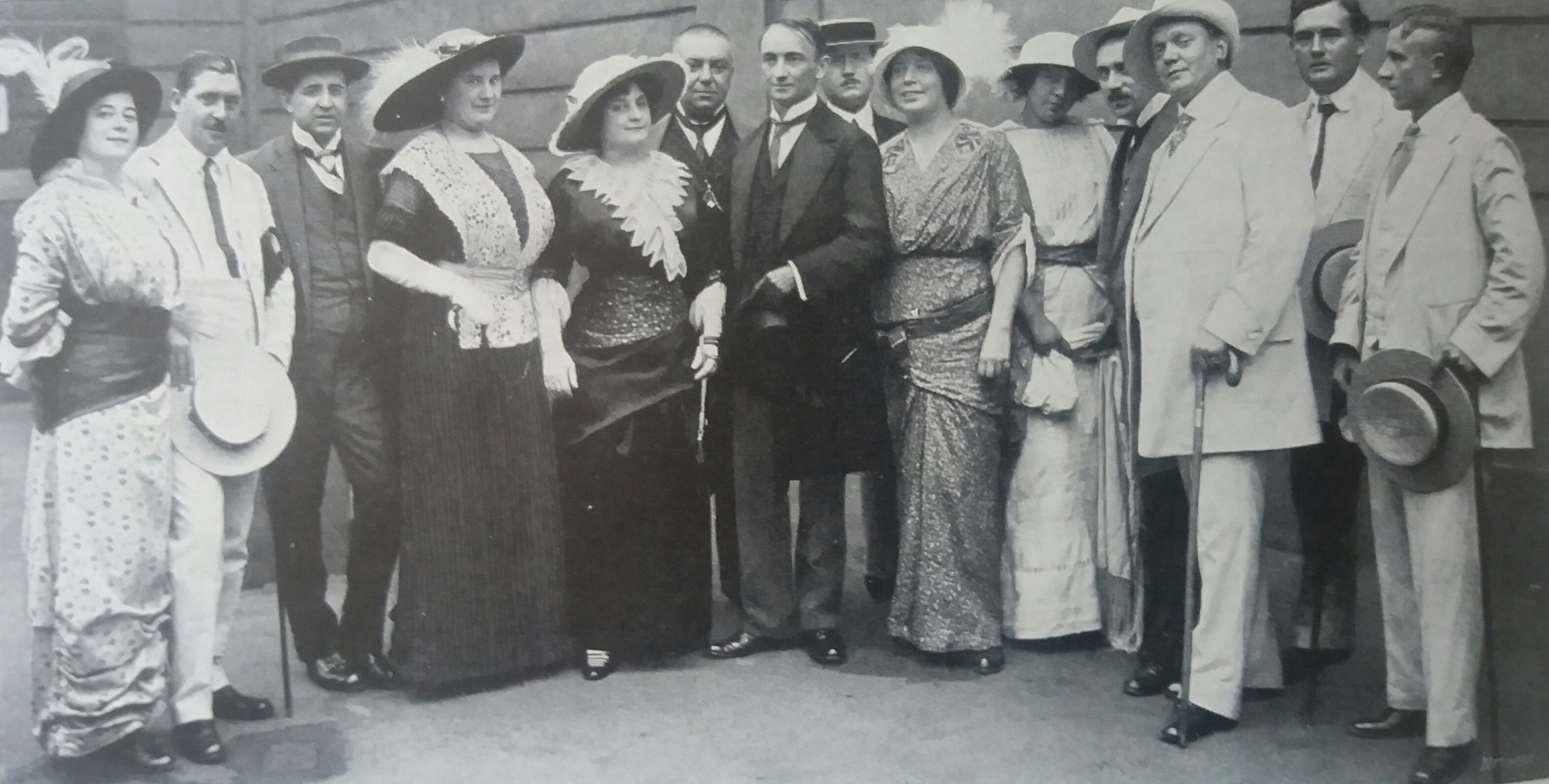 Ludvík Vítězslav Čelanský (midst), head of Opera of Divadlo na Vinohradech, with the first opera ensemble in 1907